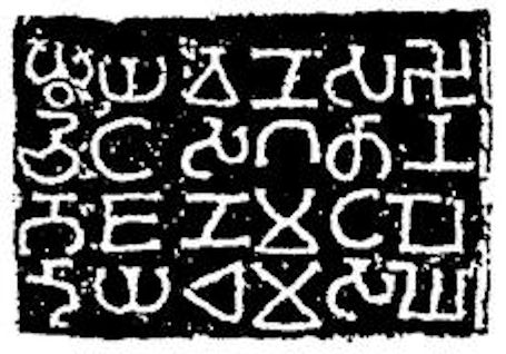 Shivneri Cave 67 Yavana inscription. Yavaṇasa Citasa Gatâna bhojaṇamatapo deyadhama saghe "Gift of a hall for the community (Sangha) by the Yavana Cita on behalf of the Gatas."